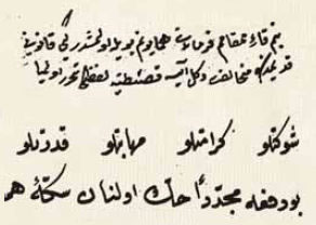 "My Deputy Grand Vizier! My imperial decree has been that, if not contrary to current law, the word of Konstantiniye is not be printed." (On the matter of printing İslâmbol instead of 'Kostantiniyye' on new coins) (handwritten rescript (hatt-i humayun) dated ca. 1788, beginning of reign of Selim III)